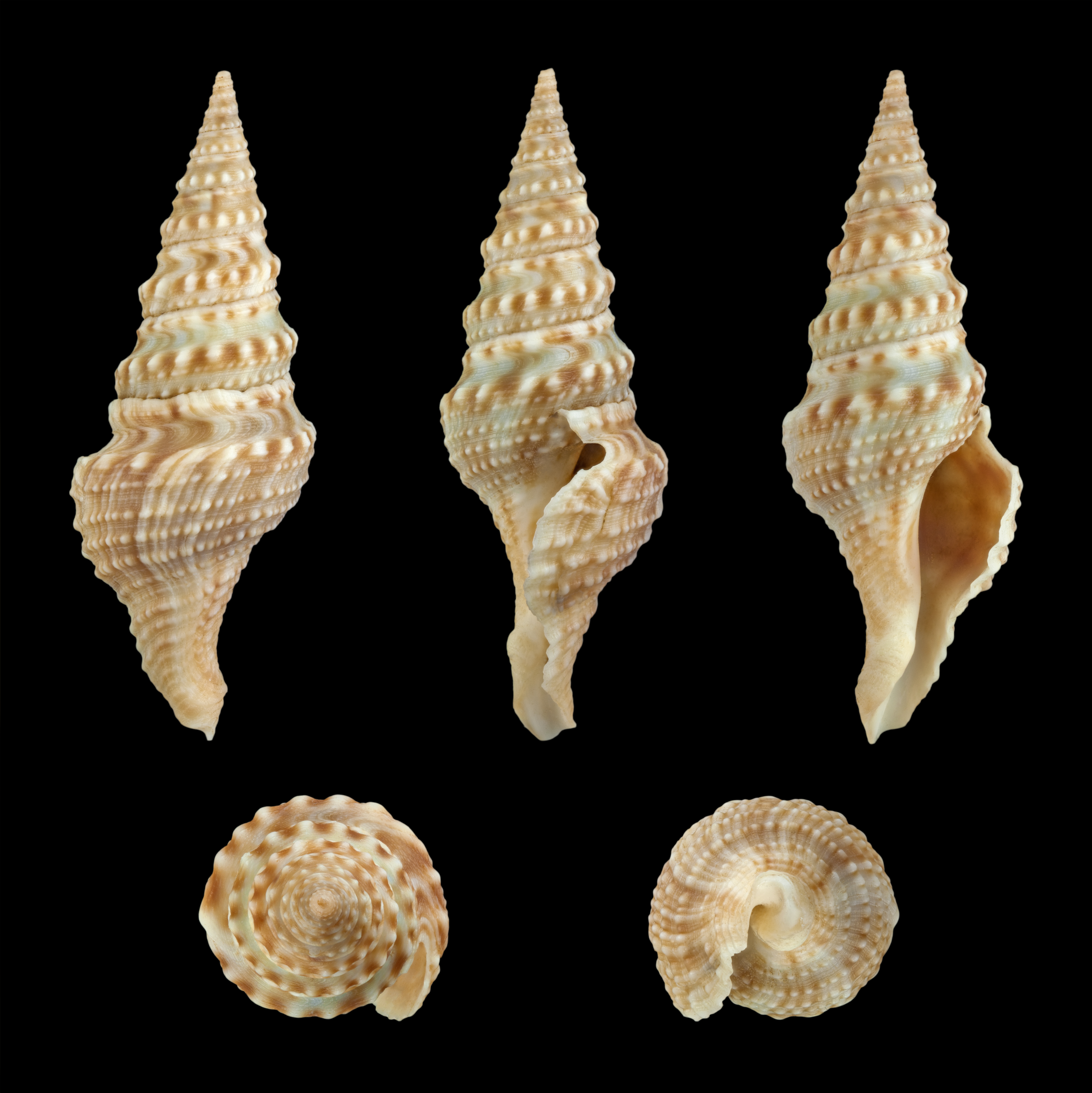 Turricula nelliae spuria (Hedley, 1922); Length 4.1 cm; Originating from Balabac, Palawan, Philippines; Shell of own collection, therefore not geocoded.